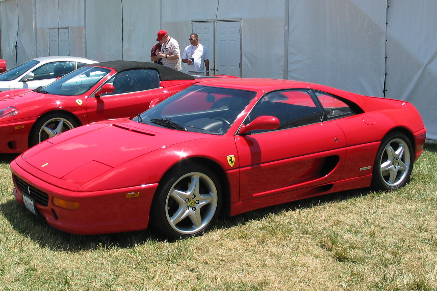 A red Ferrari F355 at the 2005 United States Grand Prix.